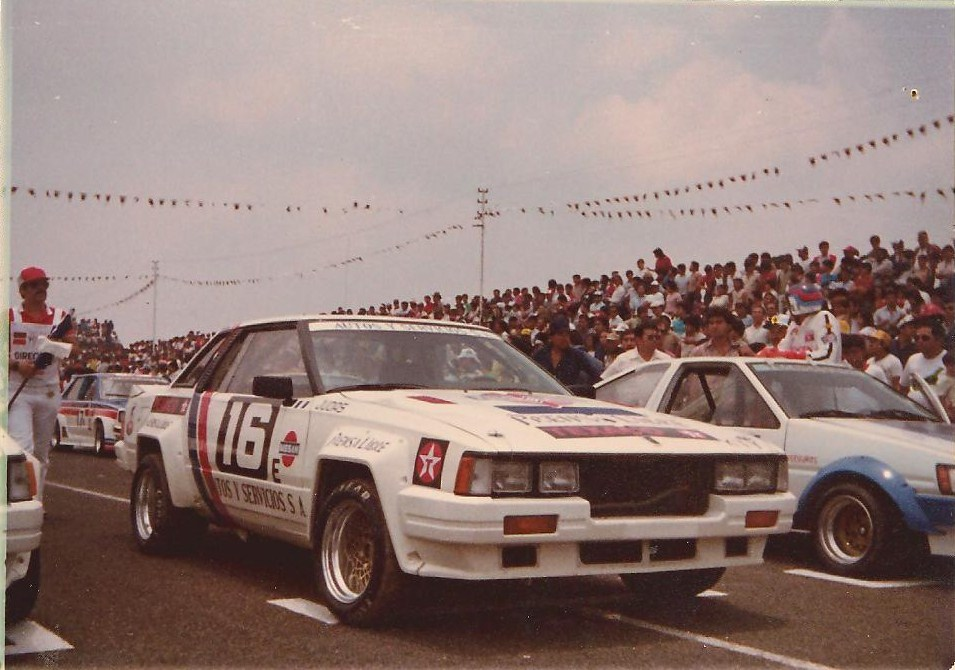 16 E Fernando Ibargüen